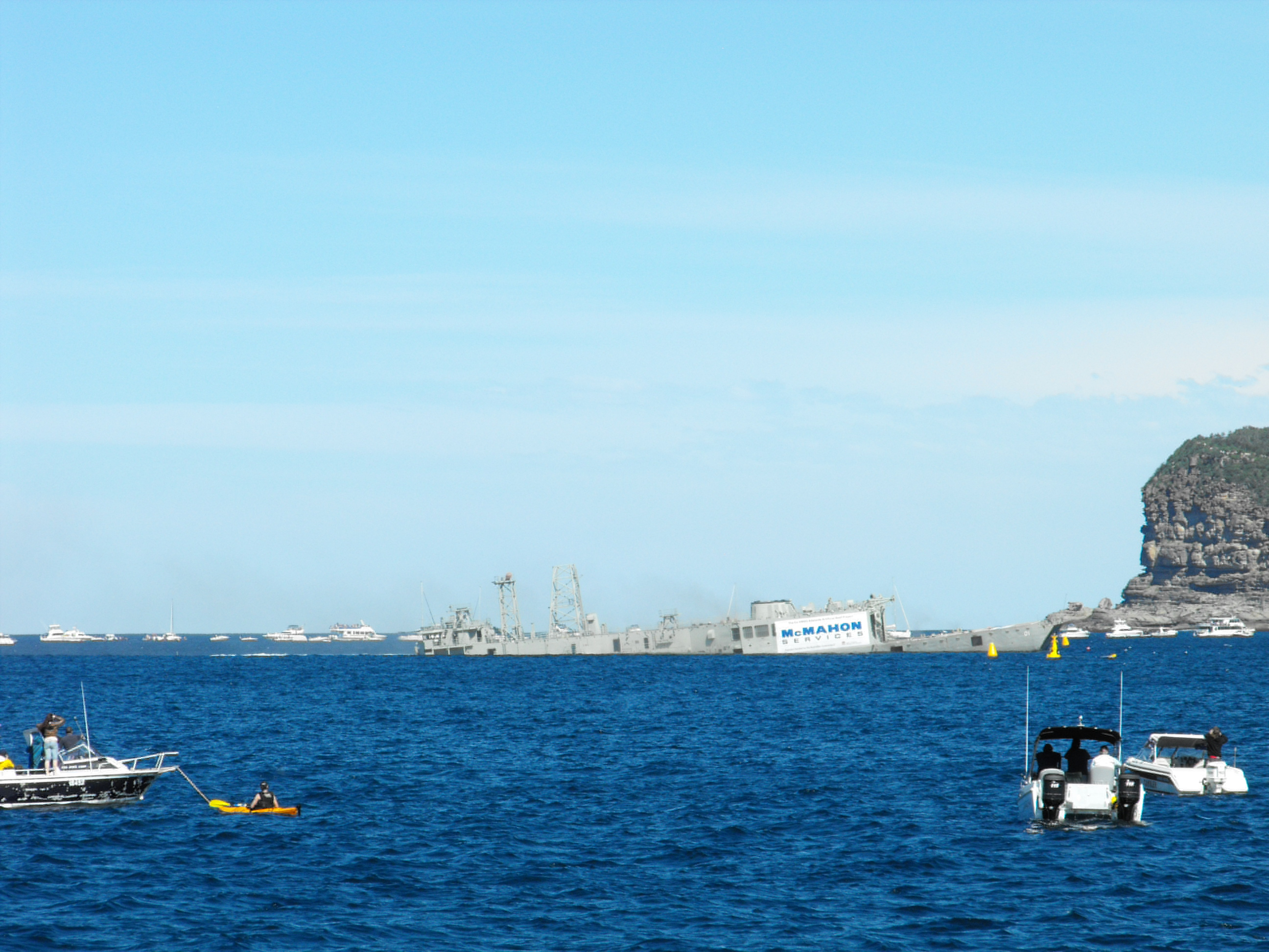 HMAS Adelaide, a decommissioned Adelaide class frigate of the Royal Australian Navy, submerging after scuttling charges were fired just before midday on 13 April 2011. The ship is being scuttled to form a dive wreck and artificial reef off the coast of Avoca Beach, New South Wales